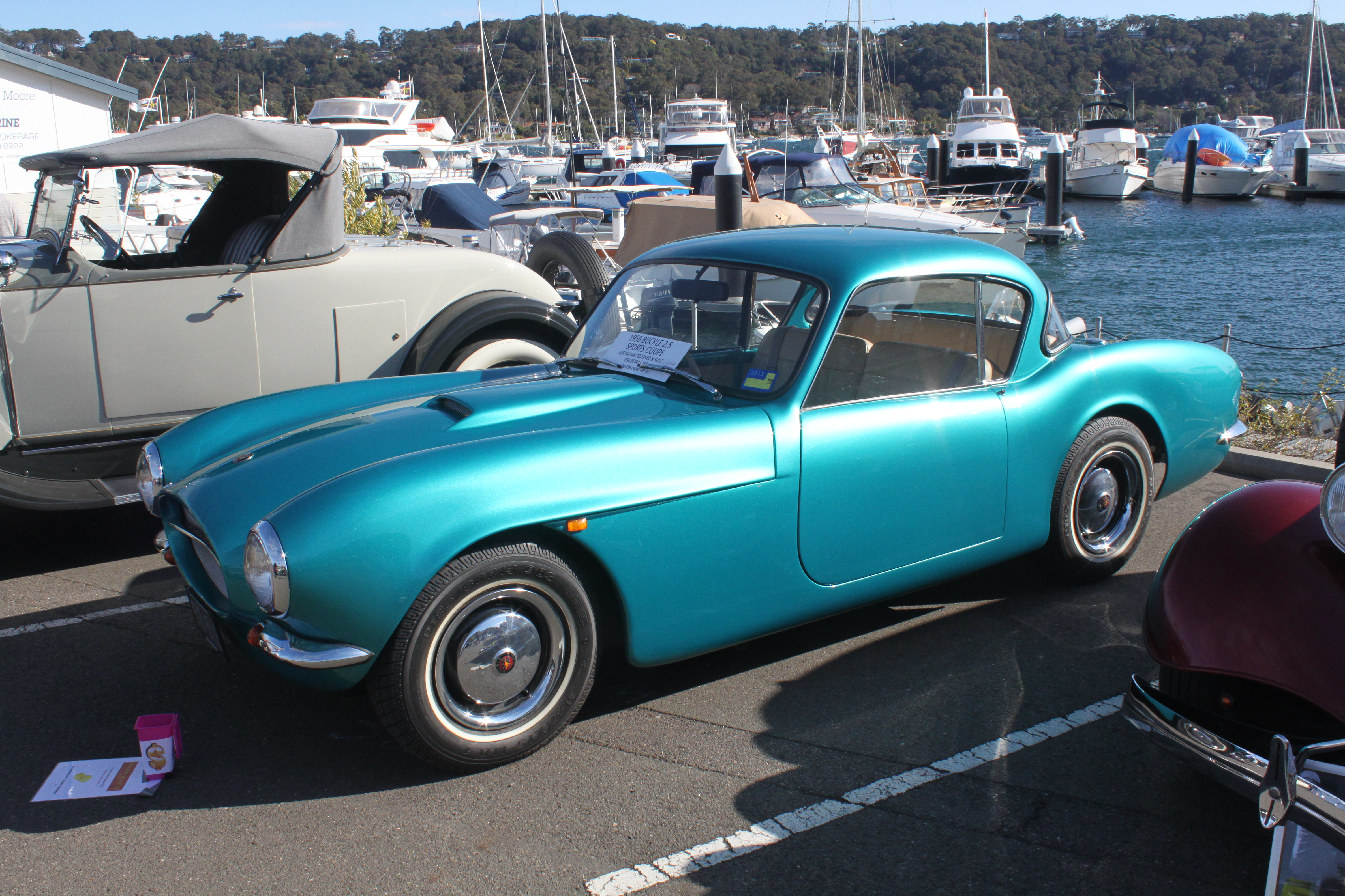 RMYC Unique Car Show, Newport, NSW July 2015